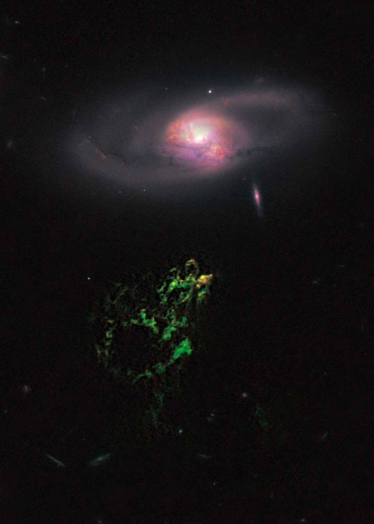 Hanny's Voorwerp and IC 2497 taken by Wide Field Camera 3 of the Hubble Space Telescope.